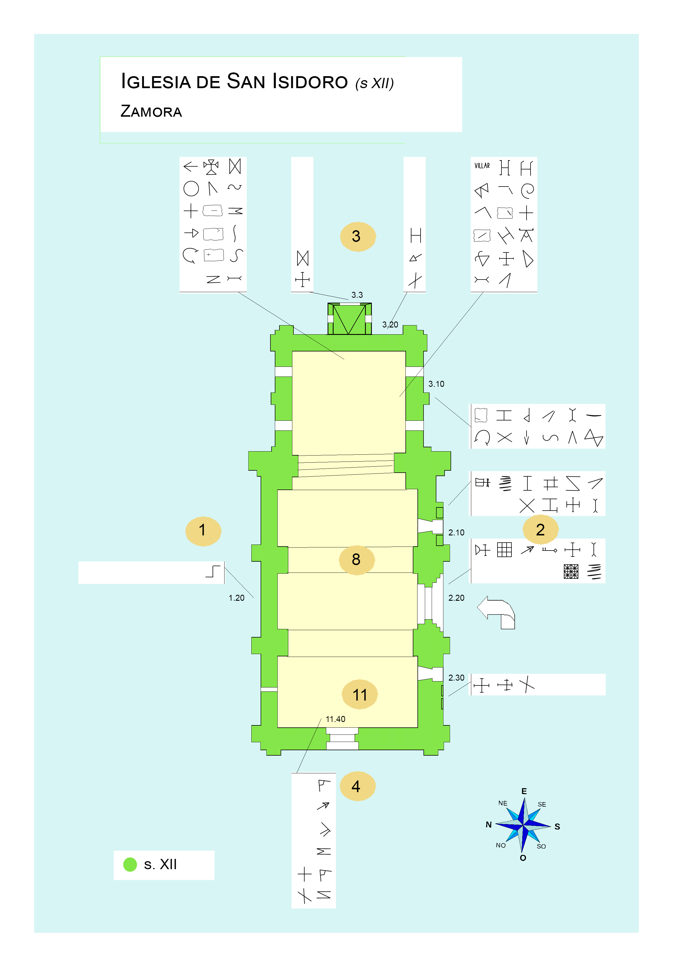 San Isidoro church, ZAMORA Spain, romanesque s. XII. Plan appro. and stonecutter marks catalog.